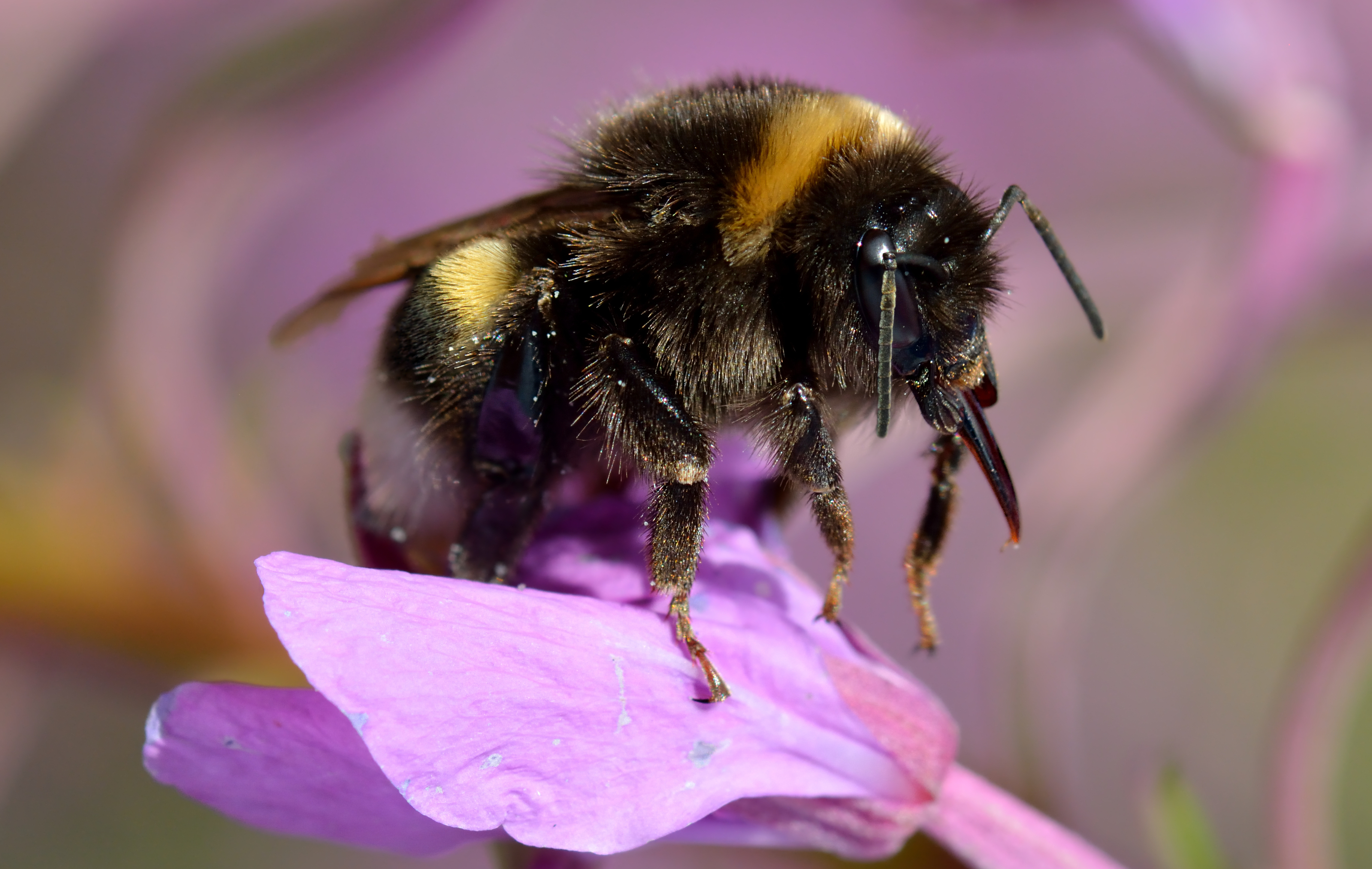 White-tailed bumblebee (Bombus lucorum) on the rosebay willowherb (Epilobium angustifolium) flower. Keila, Northwestern Estonia.